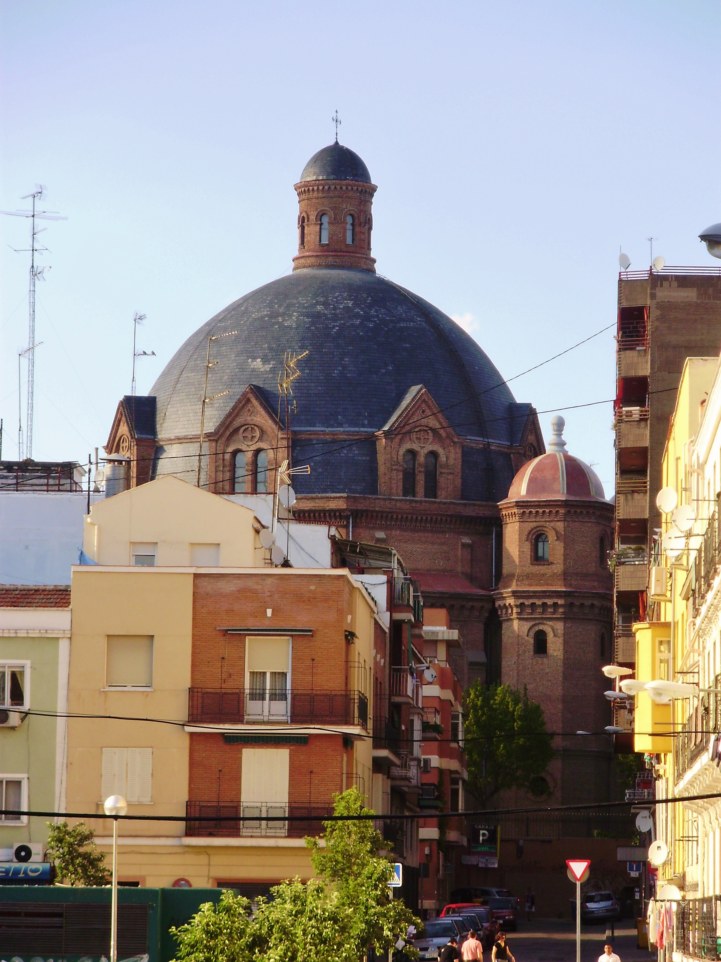 Dome of the Church of San Francisco de Sales (Madrid, Spain).